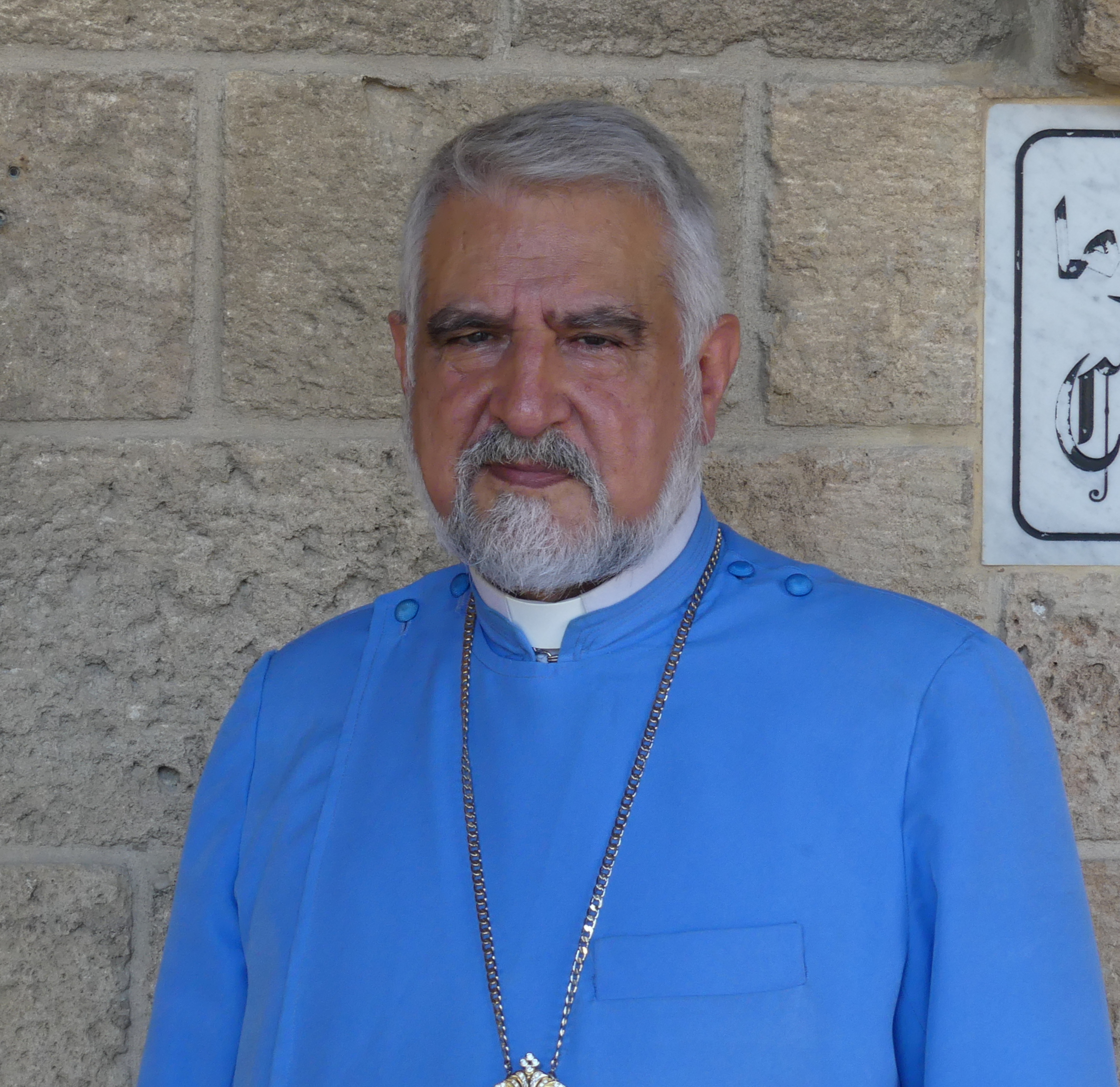 Michel Abrass (*1948 in Aleppo, Syria), Archbishop of the Melkite Greek Catholic Archeparchy of Tyre, Southern Lebanon, since 2014, here portrayed in front of the Saint Thomas Cathedral in Tyre/Sour.